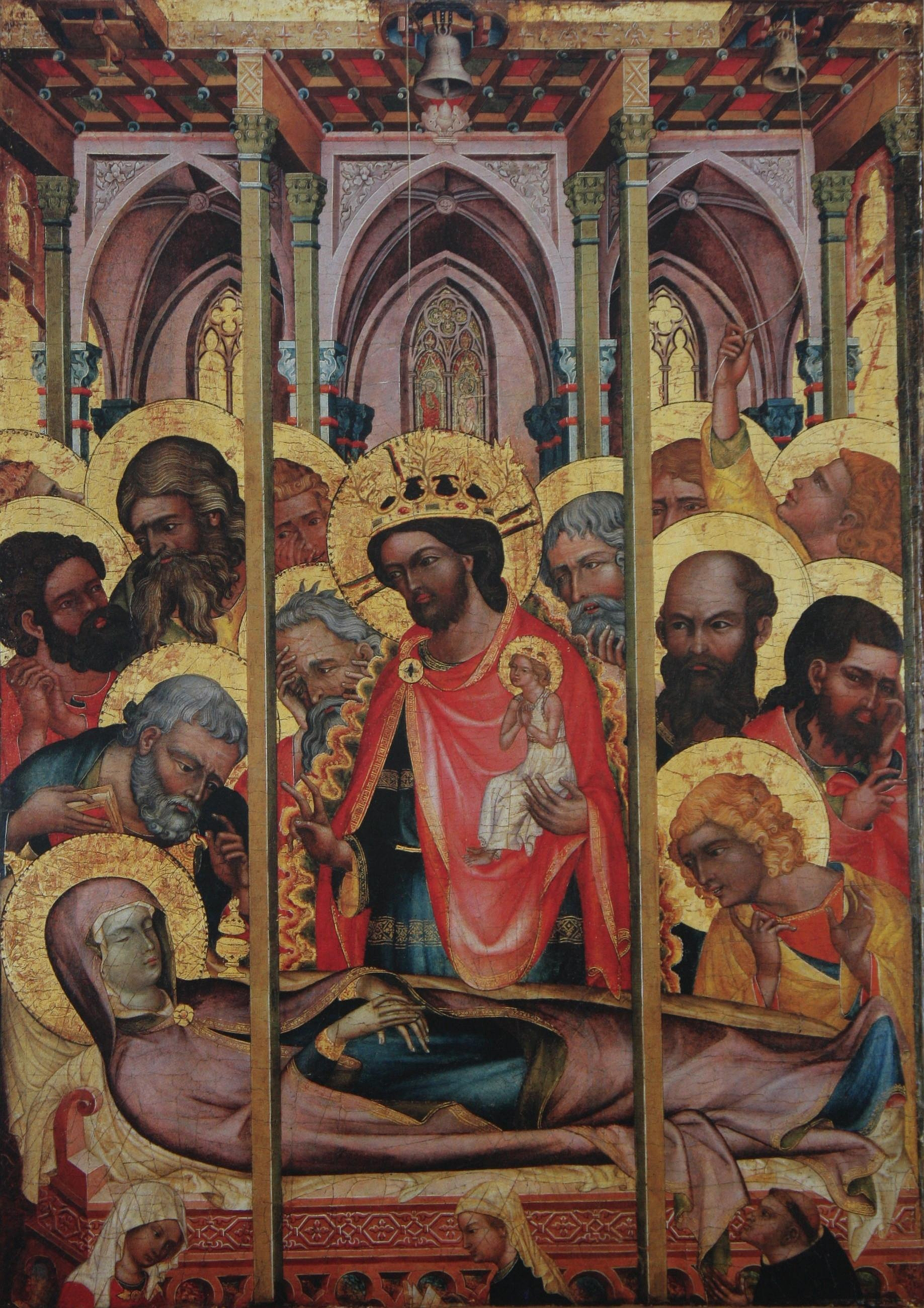 Unknown Czech Master: Dormition of the Virgin from Košátky.